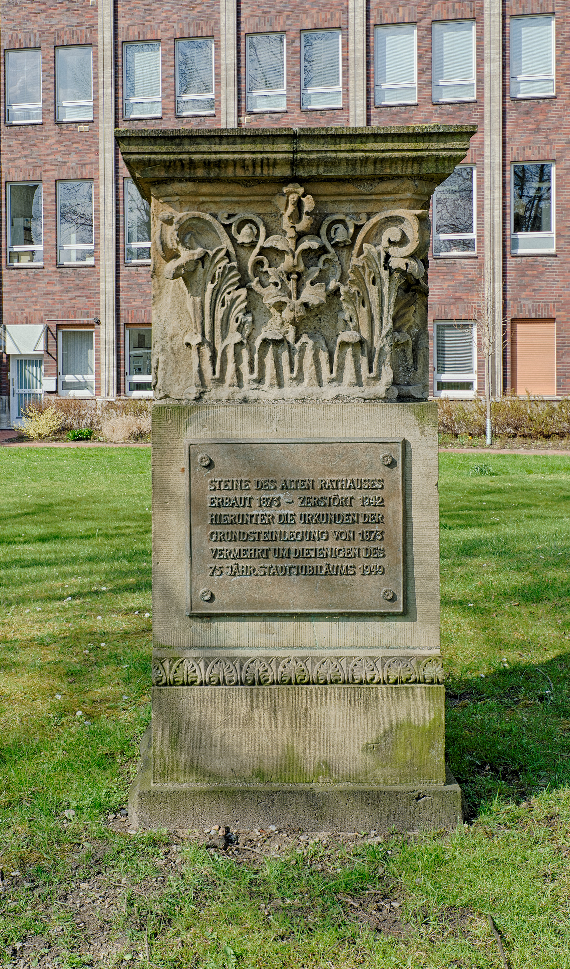 Stone tablet with information about old stones of town hall Oberhausen